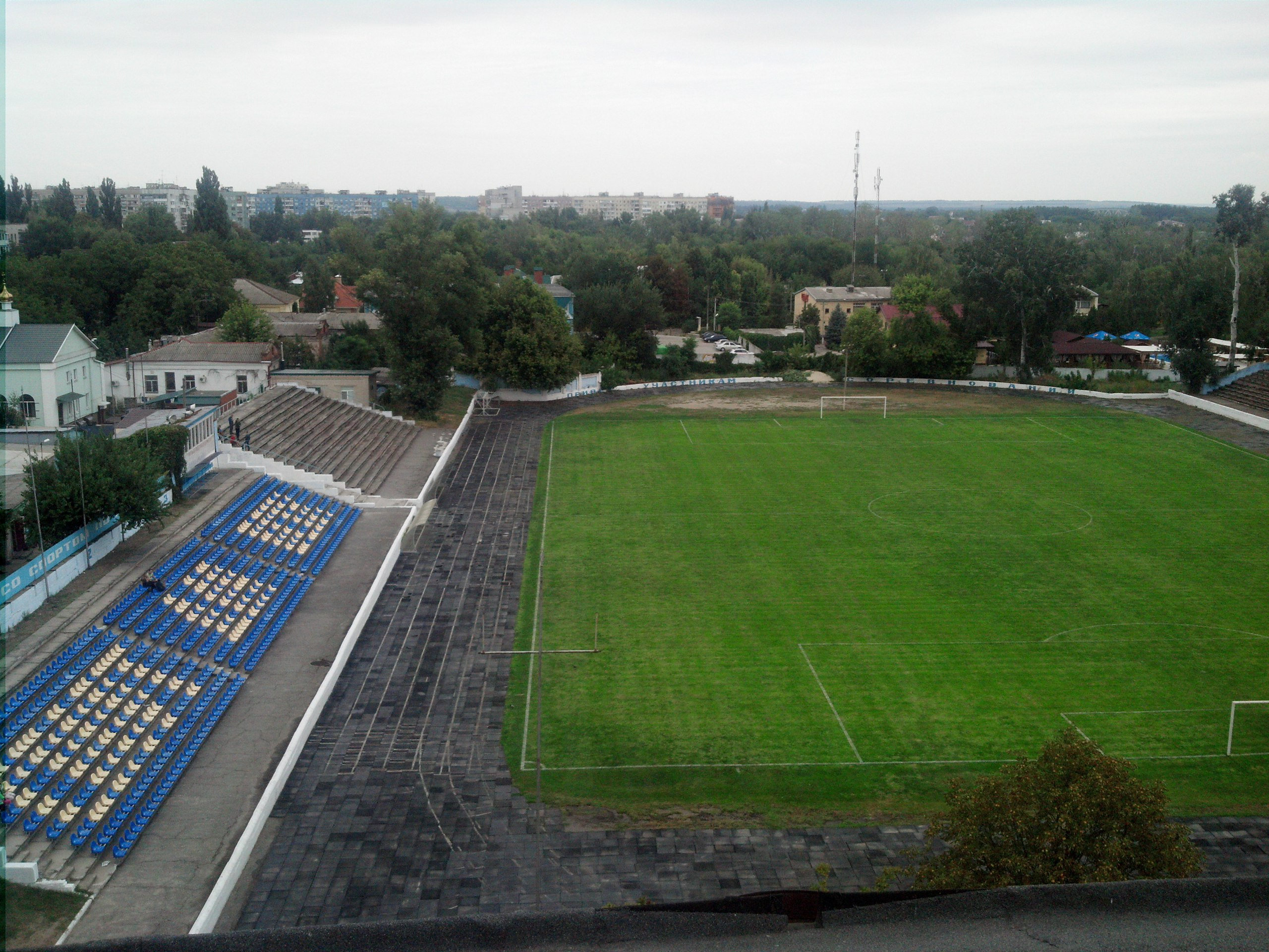 Metalurh Stadium in Novomoskovsk, Dnipropetrovsk Oblast, Ukraine